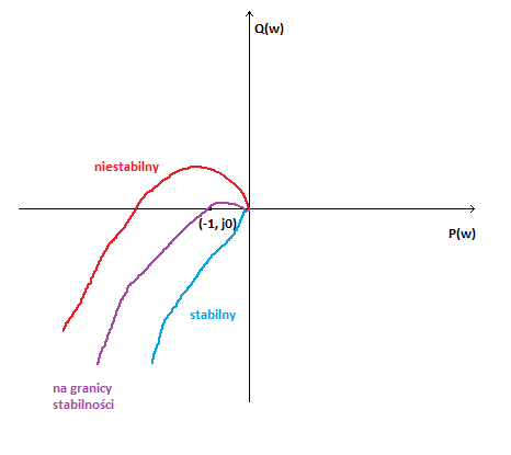 przykładowa ilustracja